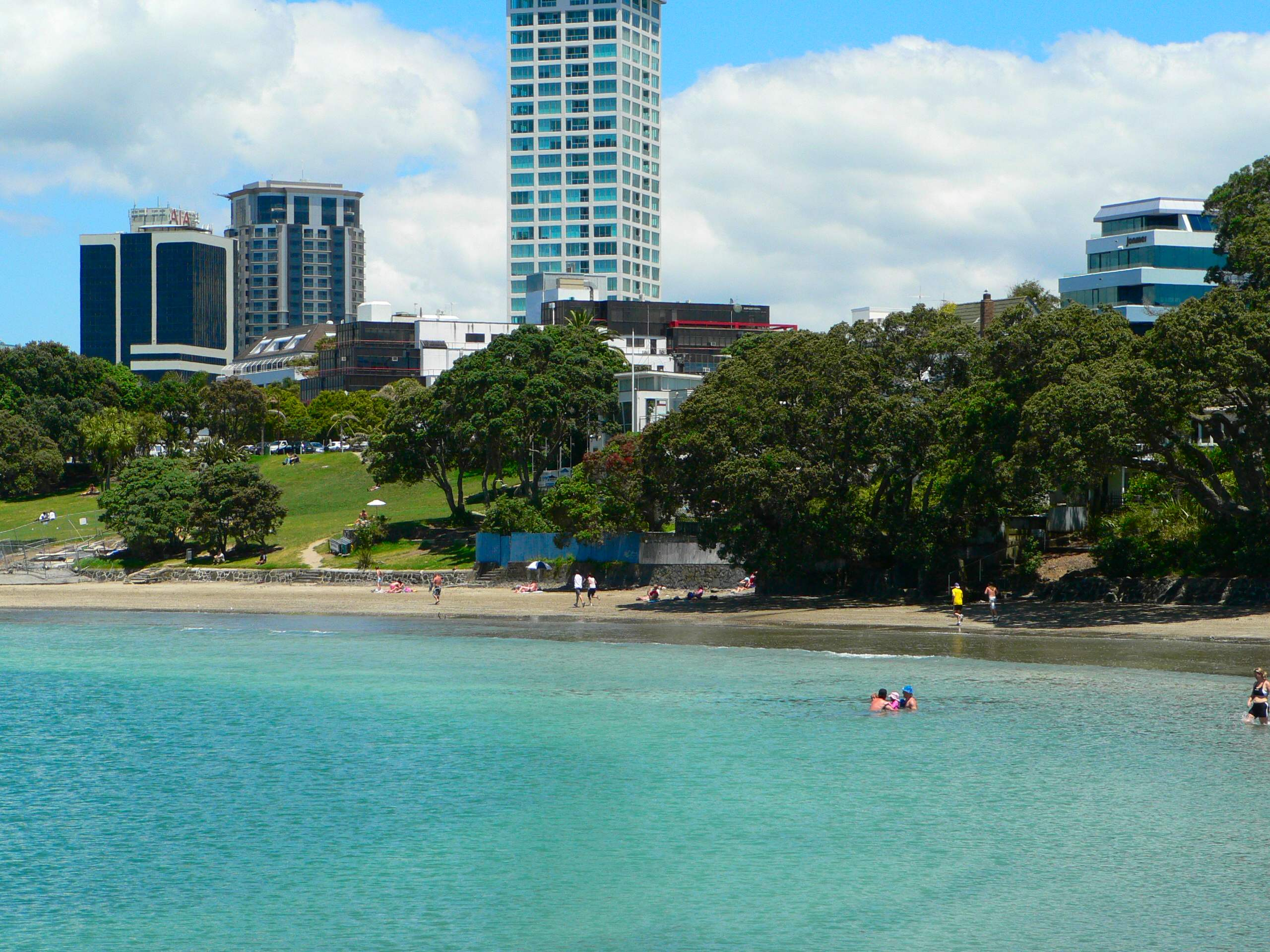 Takapuna Beach, North Shore City, New Zealand